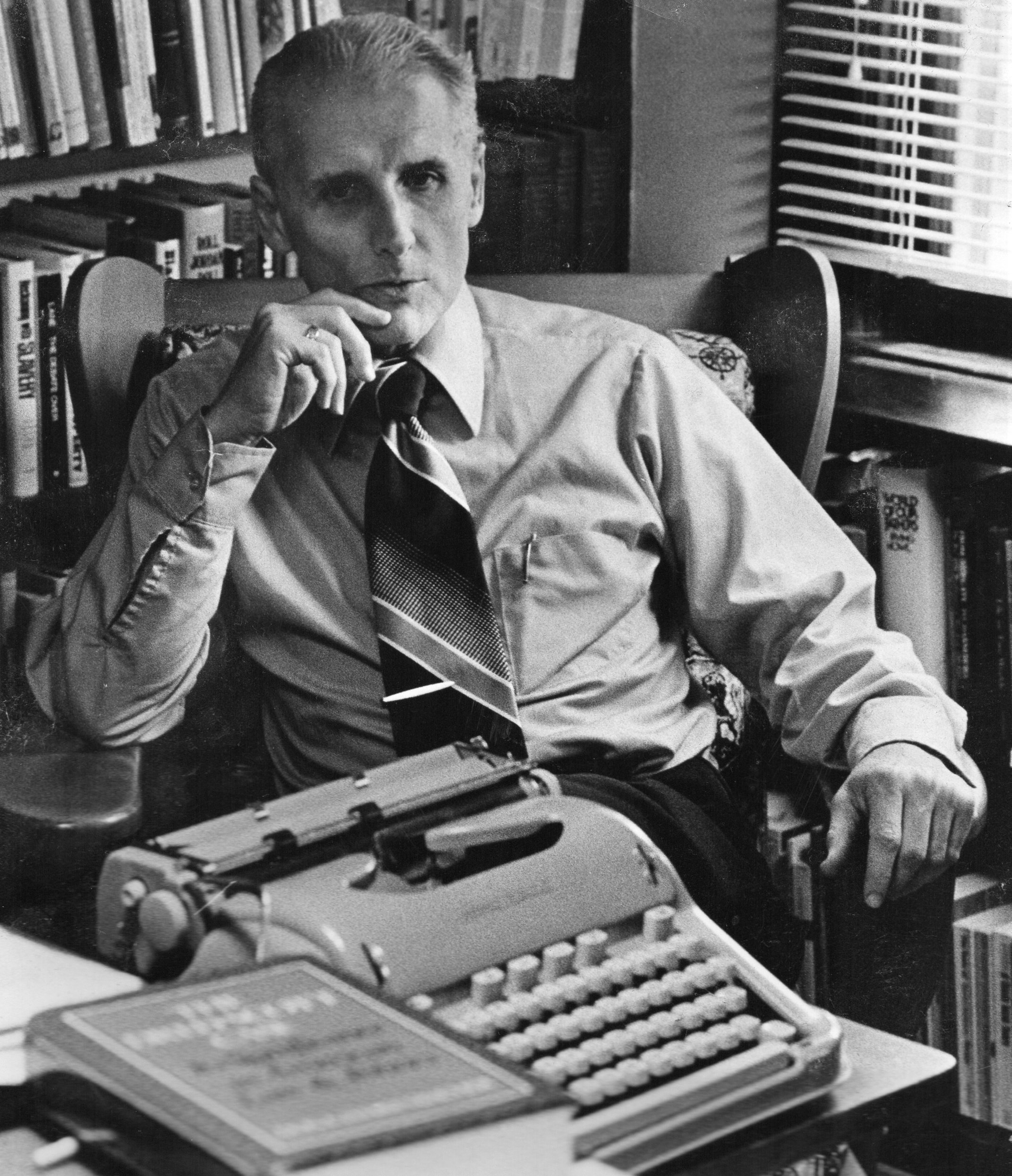 Family portrait